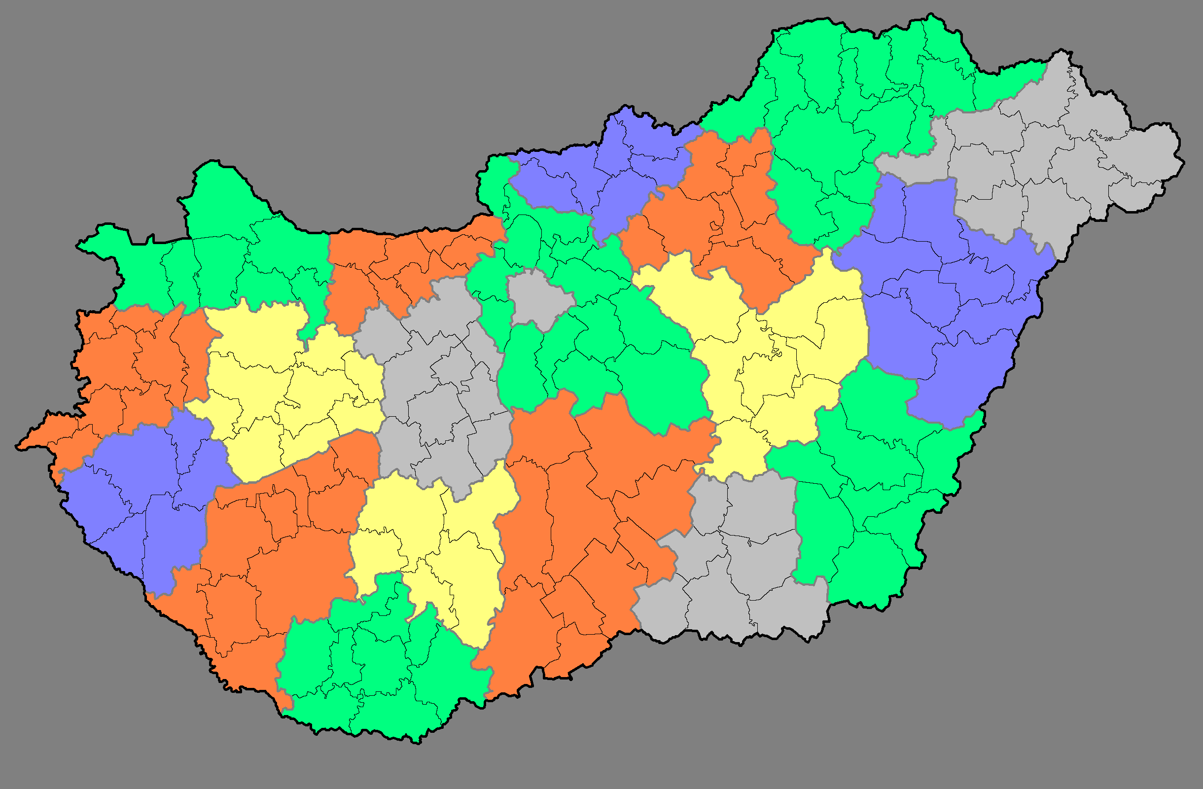 Hungary, micro-regions (LAU 1)